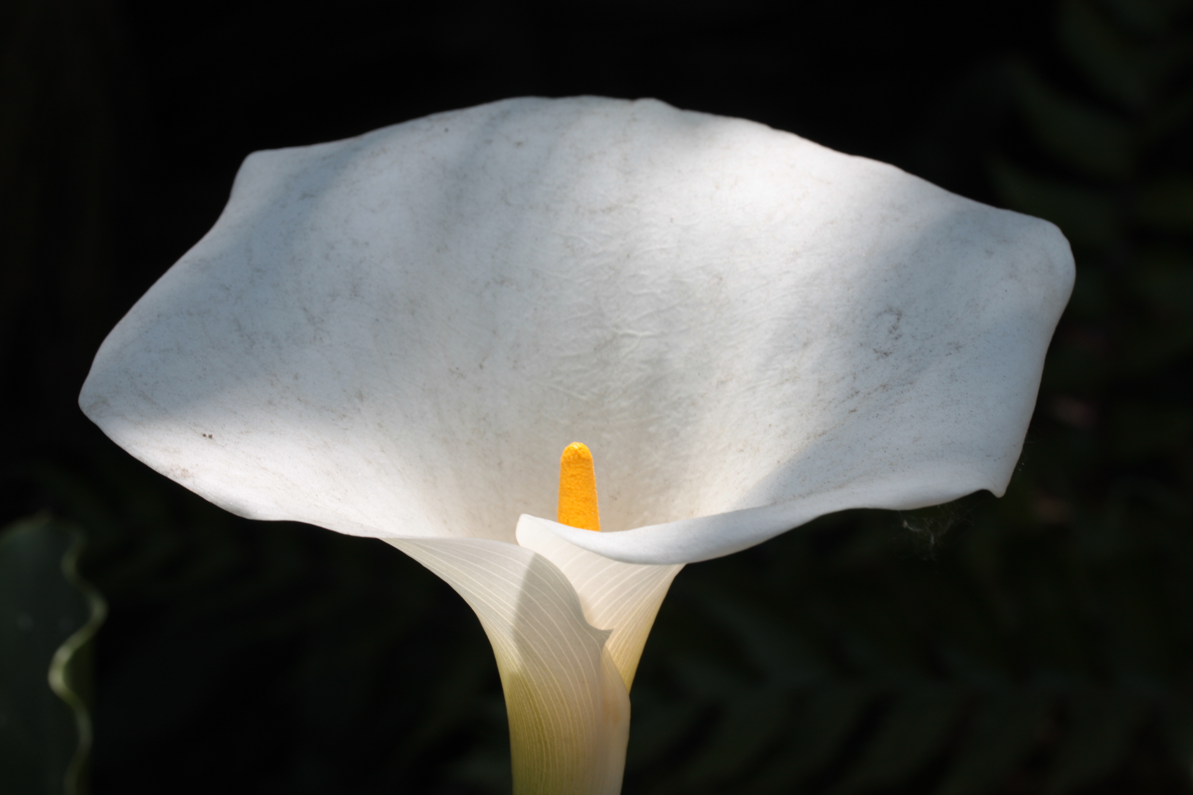 Zantedeschia albomaculata (variegated) under a large Ceiba insignis on the east side of the porte de cochere of the Huntington Art Gallery, San Marino, California